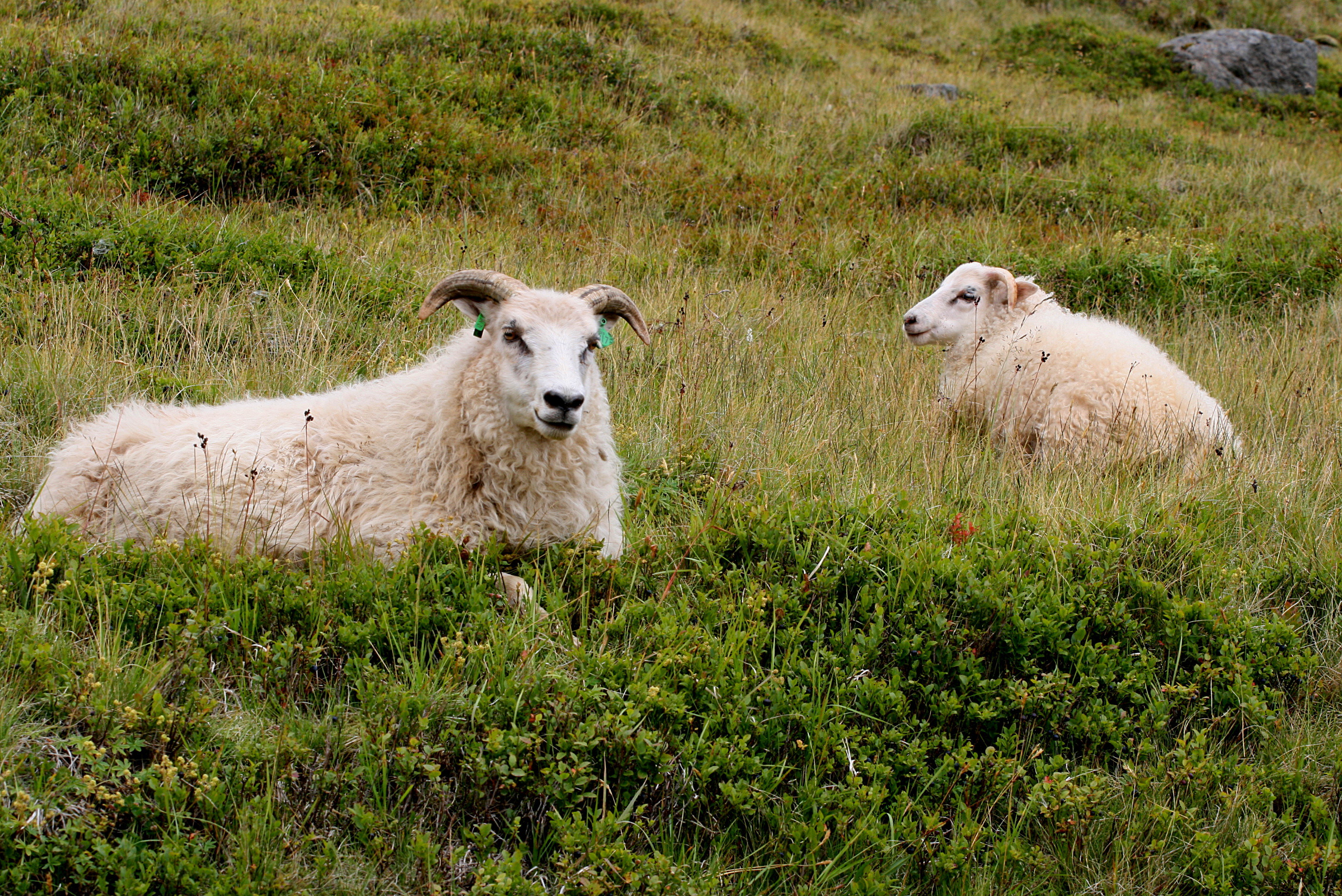 Icelandic sheep and its lamb